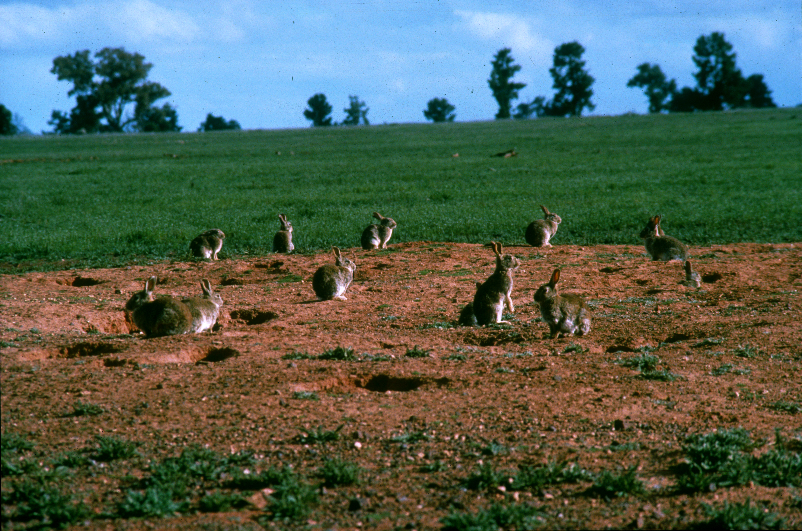 European rabbit (Oryctolagus cuniculus). Rabbits are one of Australia's most widespread and destructive pest animals threatening the viability of native plant and animal species. They contribute to soil erosion by removing vegetation and disturbing soil and they compete with native wildlife for food and shelter, increasing their exposure to the danger of predators. Photo credit: Liz Poon